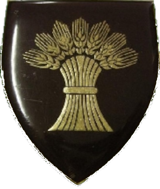 SADF era Bethlehem Commando emblem